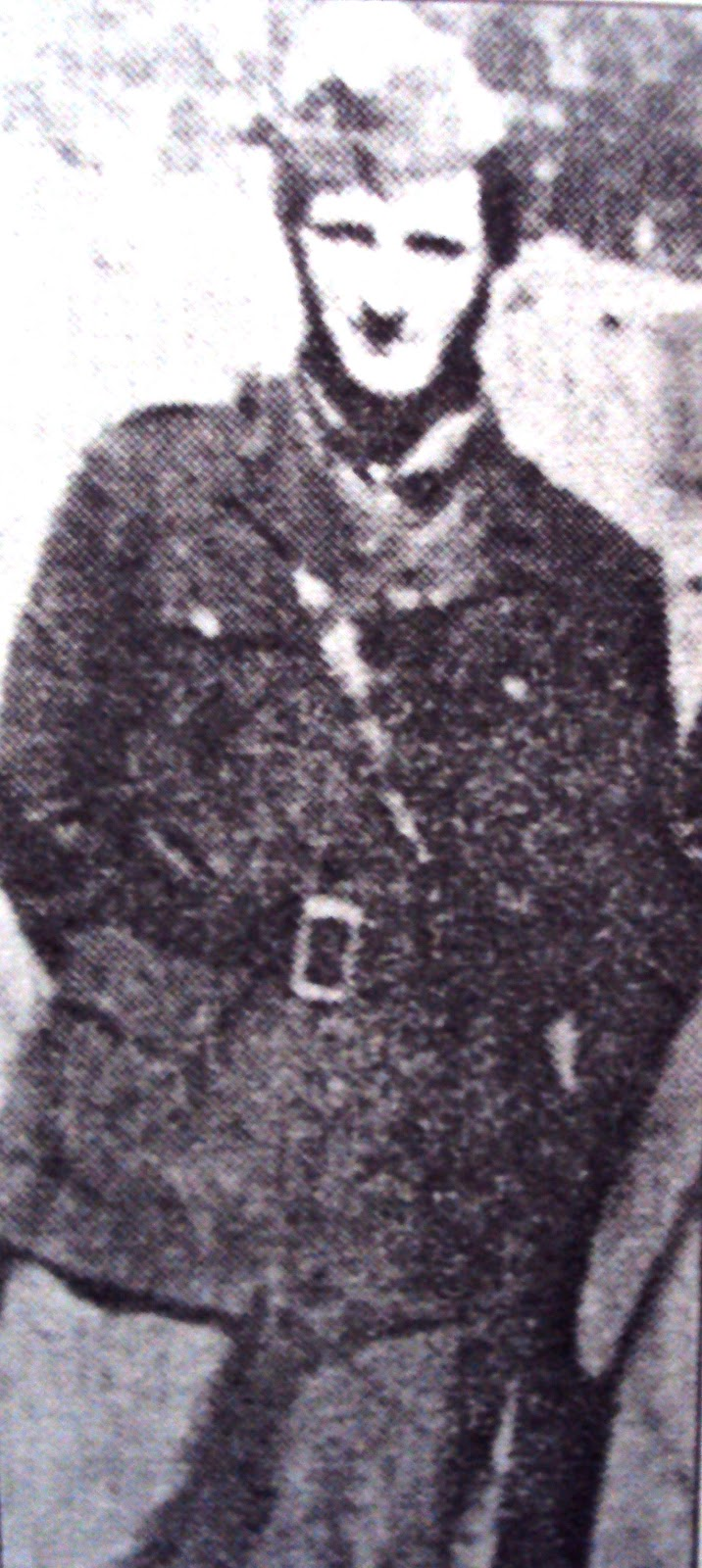 Greek officer and guerrilla commander Costas Basakidis